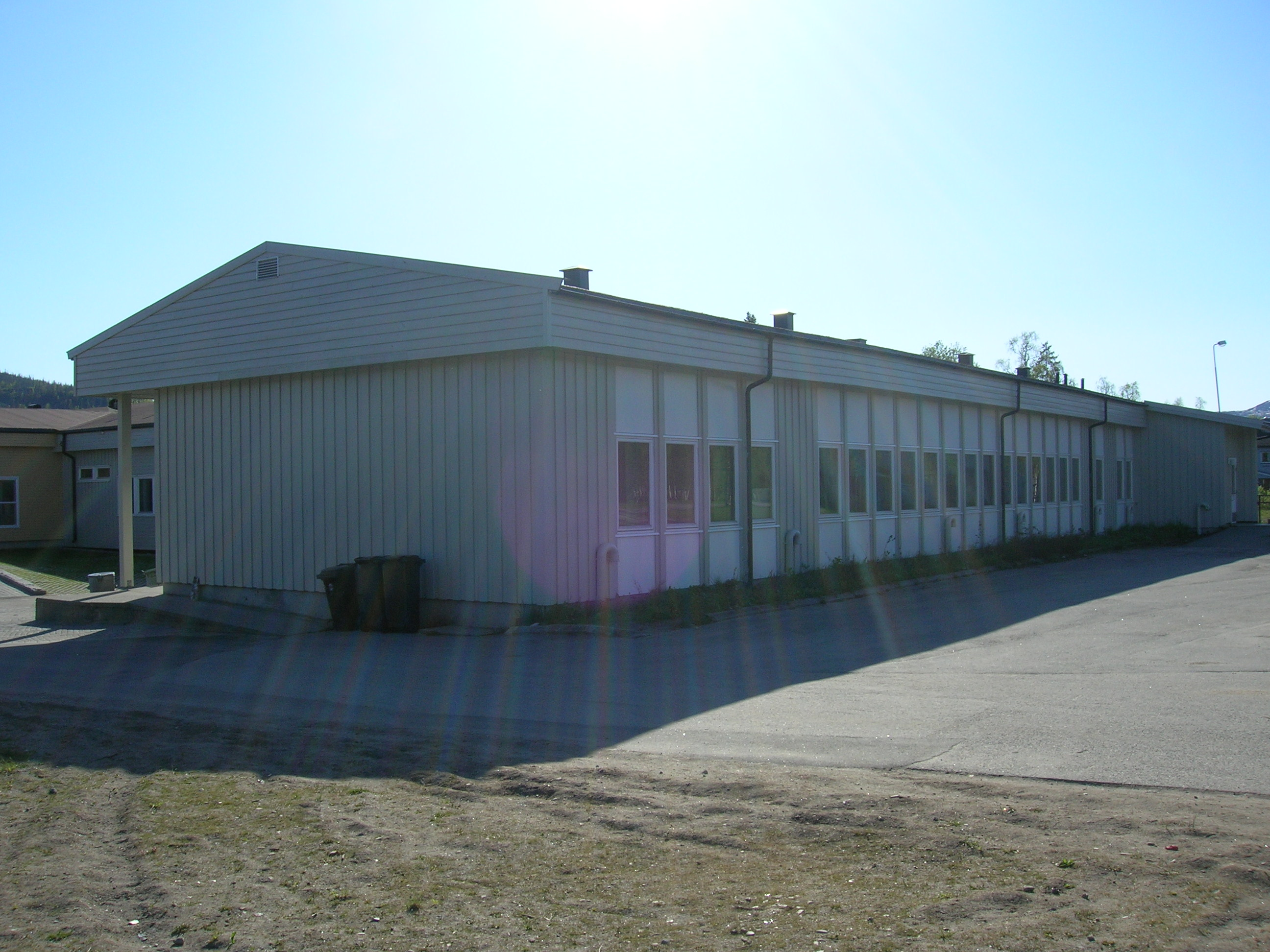 The school of Storforshei, Dunderlandsdalen, Rana municipality in Nordland county, Norway. Photo June 2, 2008 with a Nikon Coolpix 5600 5,1 Megapixel camera.